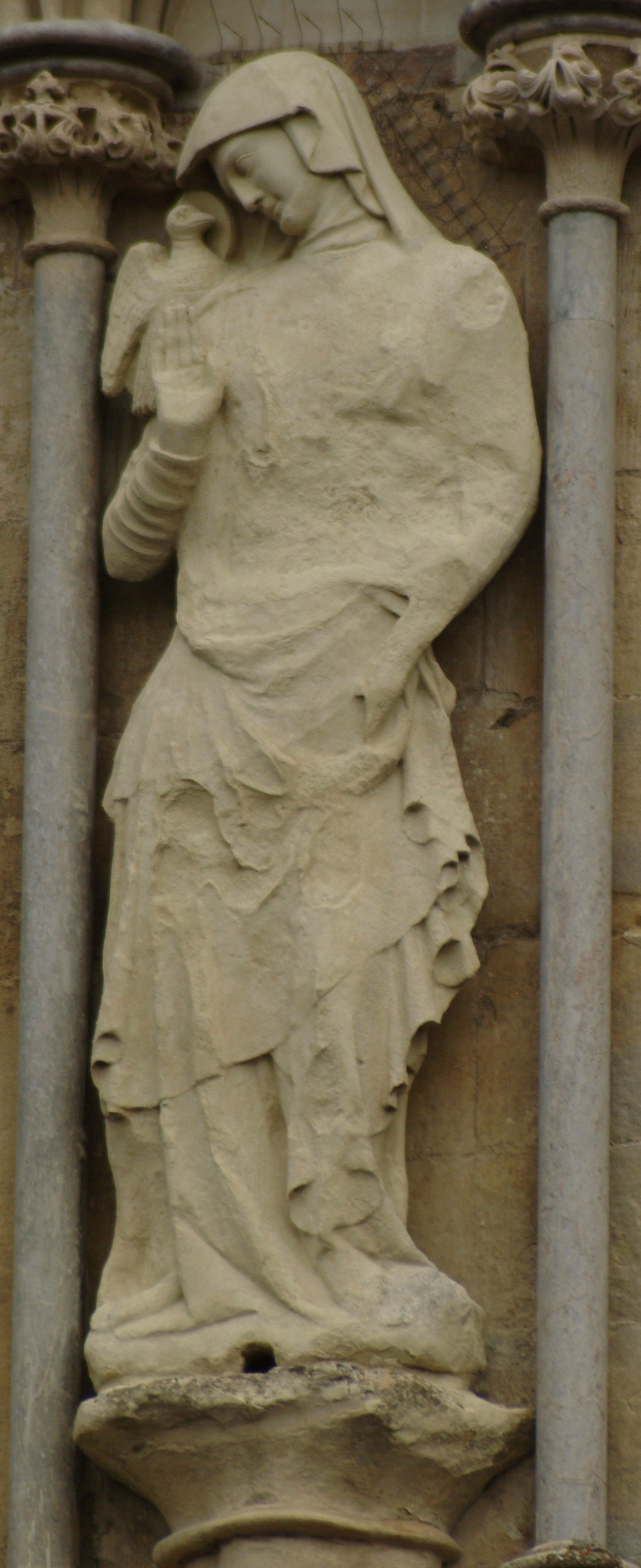 A Statue of St John the Evangelist on the West Front of Salisbury Cathedral, UK.